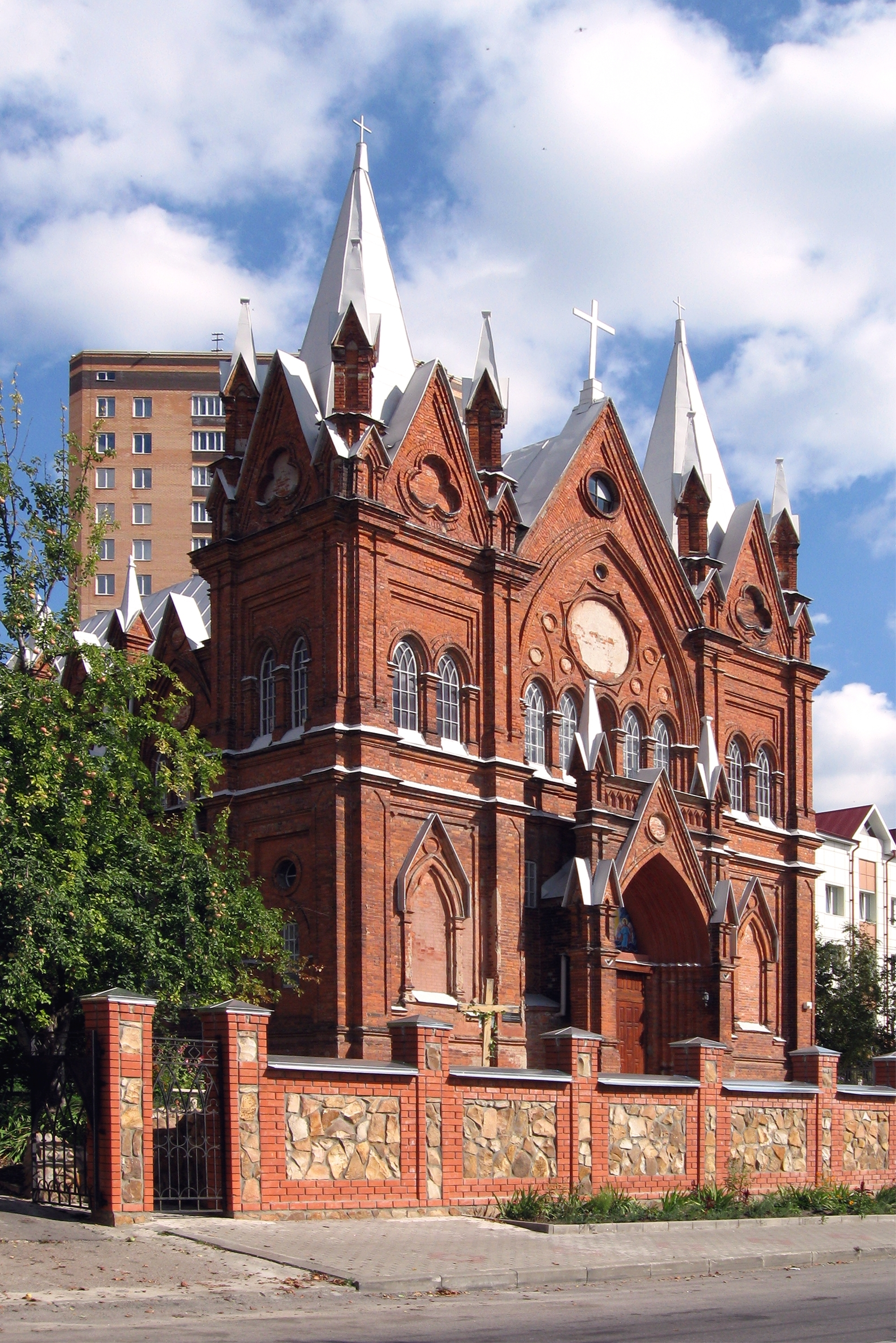 Roman Catholic church of the Assumption of the Virgin Mary in Kursk (Russia).